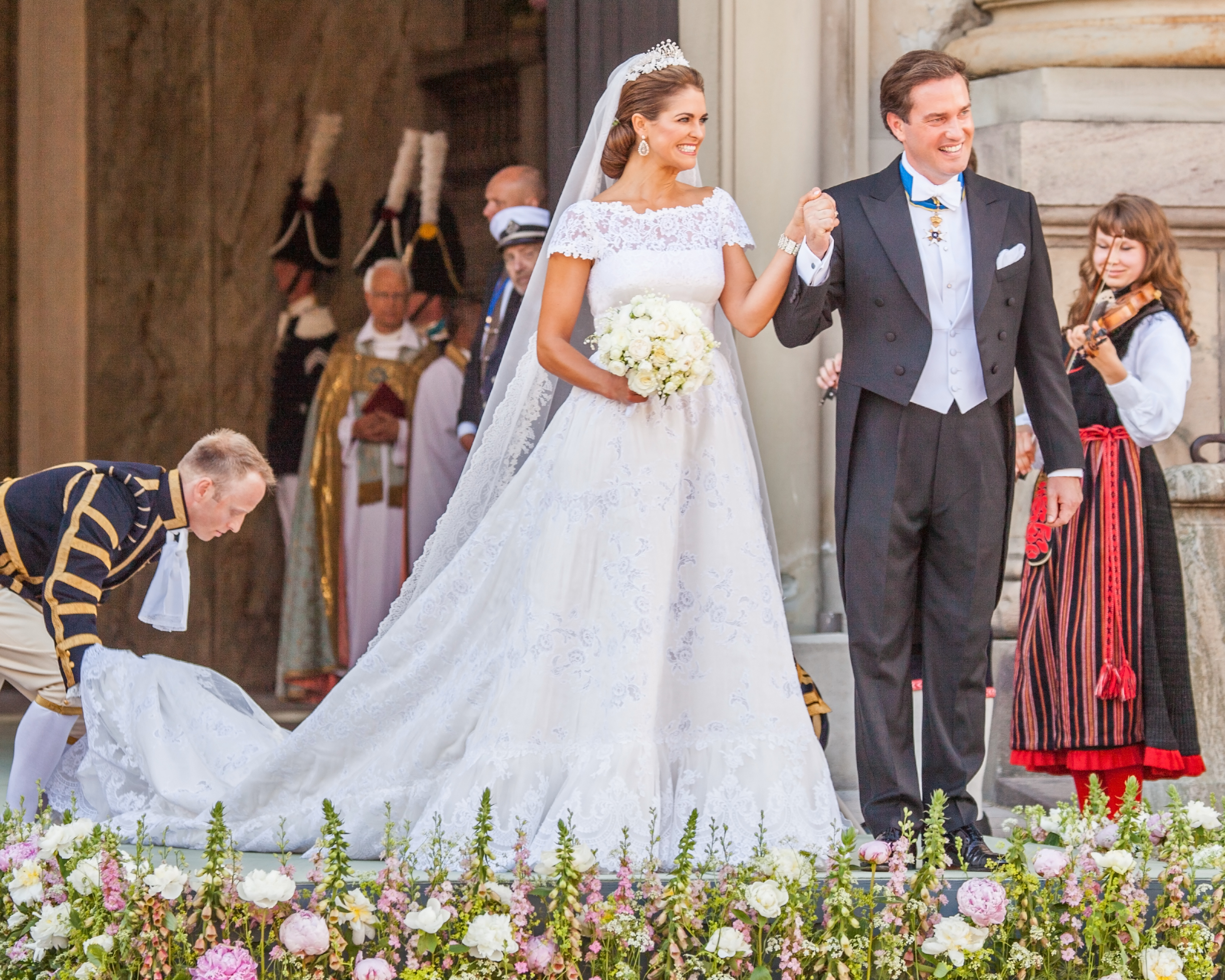 Princess Madeleine of Sweden and Christopher O´Neill wedding June 2013